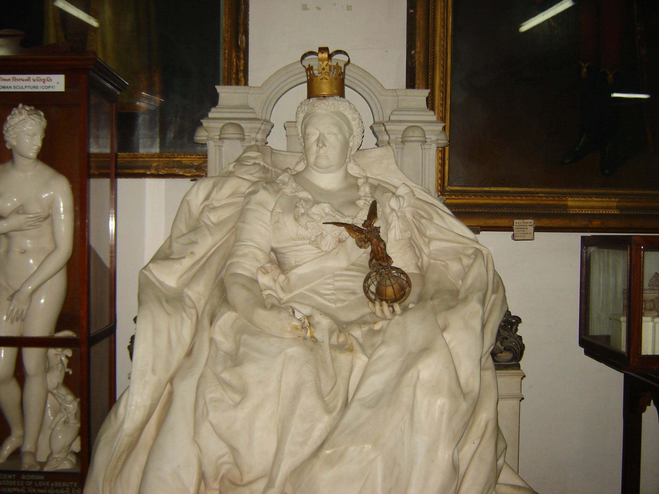 The statue of Her Most Gracious Majesty the Queen Victoria. The statue was unveiled by H.E. the Lord Curzon of Kedleston. The statue is the work of Mr. Alfred Gilbert, one of the most gifted of British sculptors. There is an almost identical black version in the Great Hall, Winchester, England-by the same sculptor.